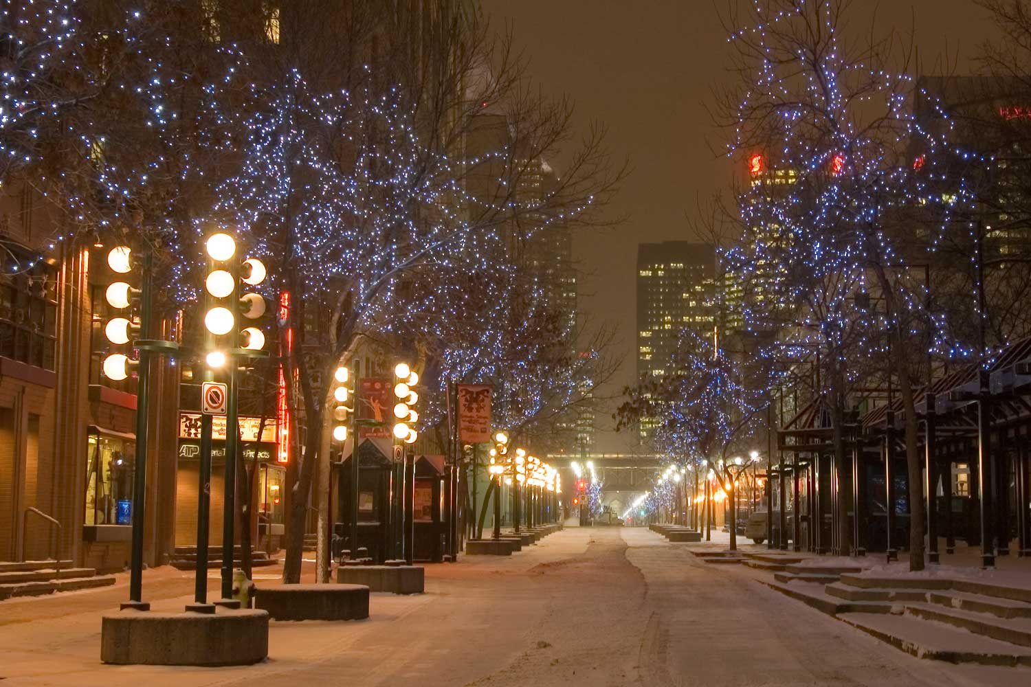 Stephen Ave Holiday lighting in Calgary Albert